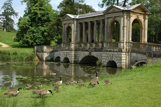 Palladian Bridge, Stowe Stowe's Palladian Bridge was completed in 1738 and was probably designed by Gibbs. The bridge is sited on the boundary of two grid squares.